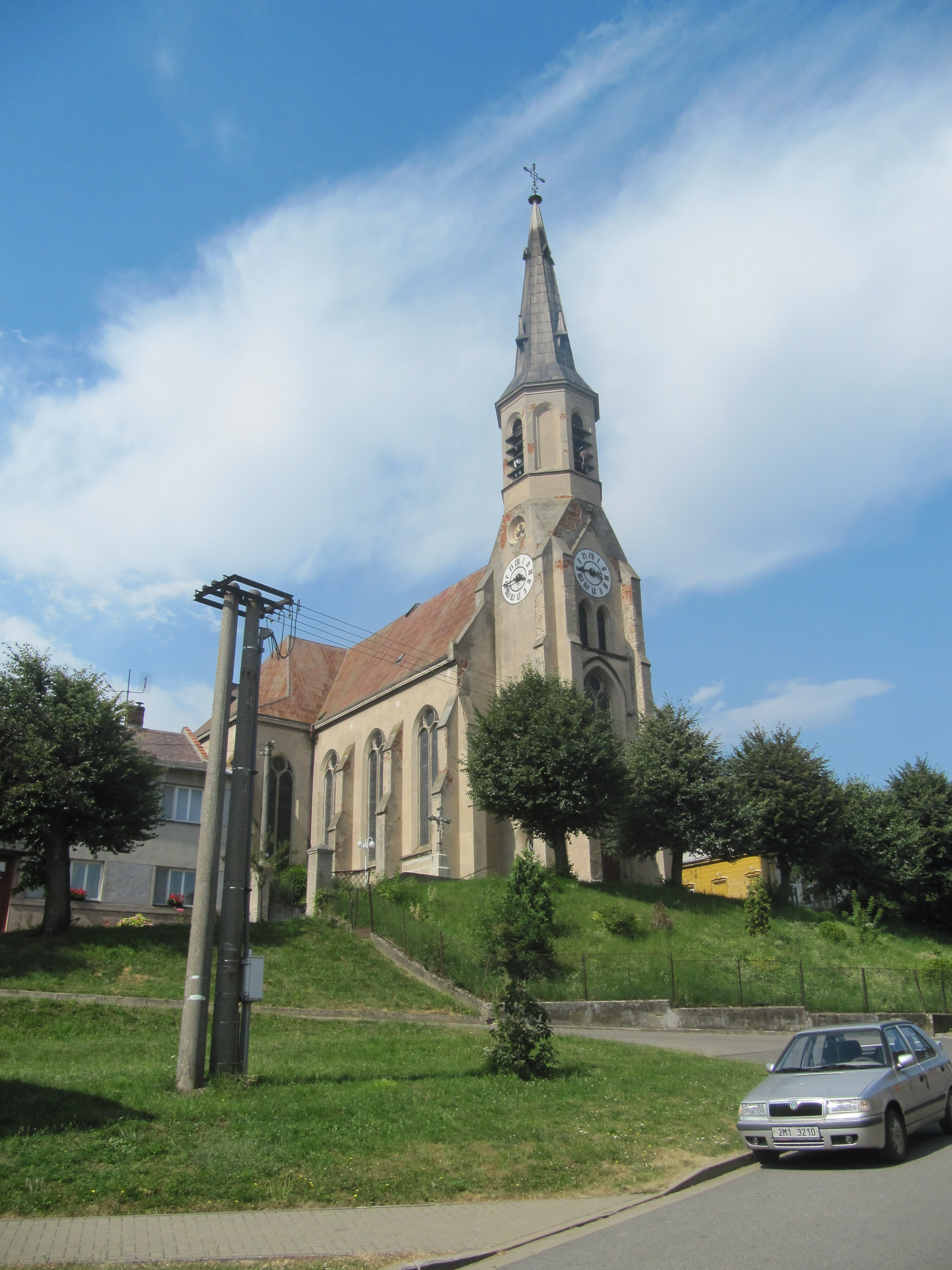 Stará Ves, Přerov District, Czech Republic.